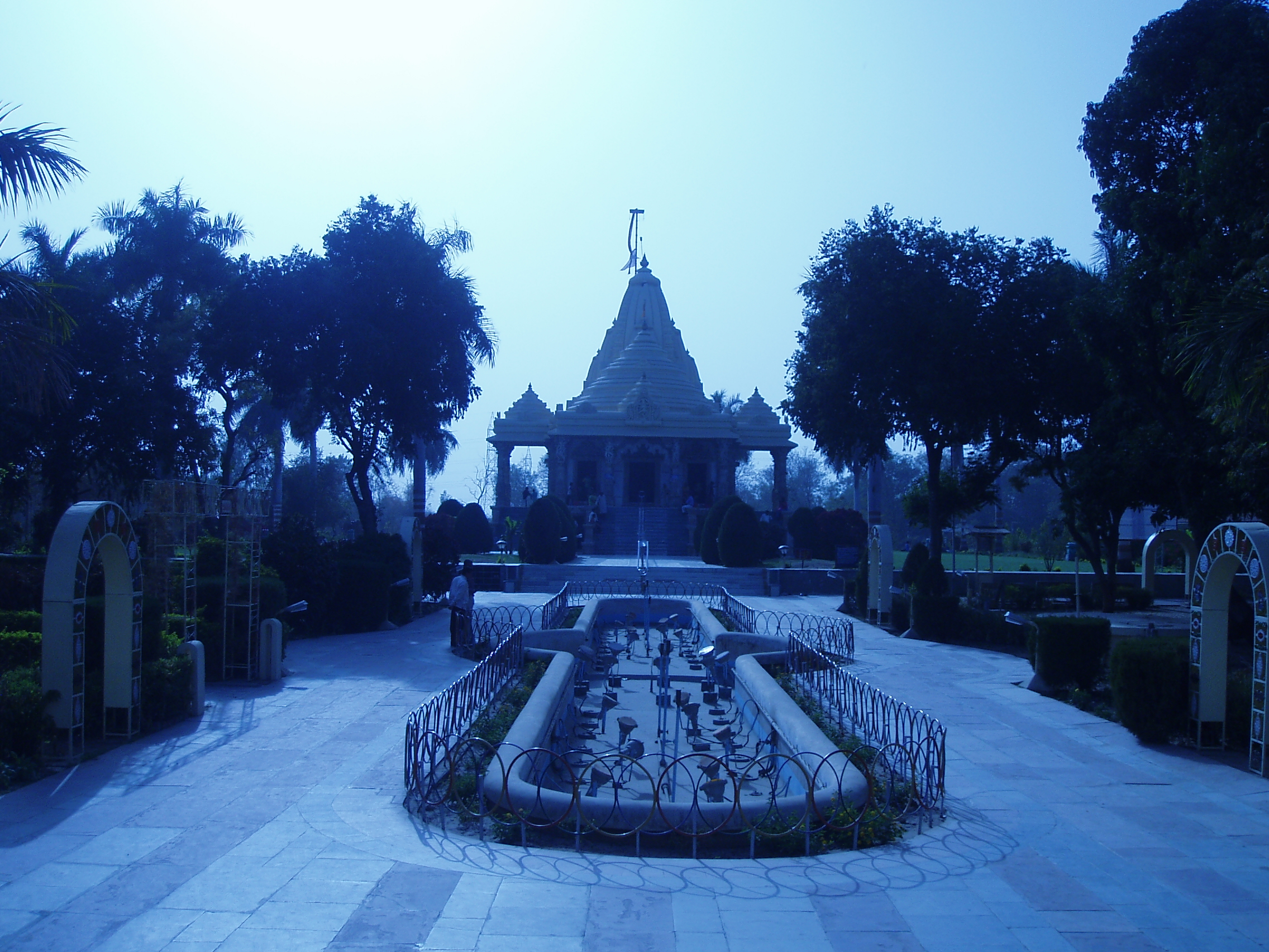 Historic Kayavarohan temple near Vadodara